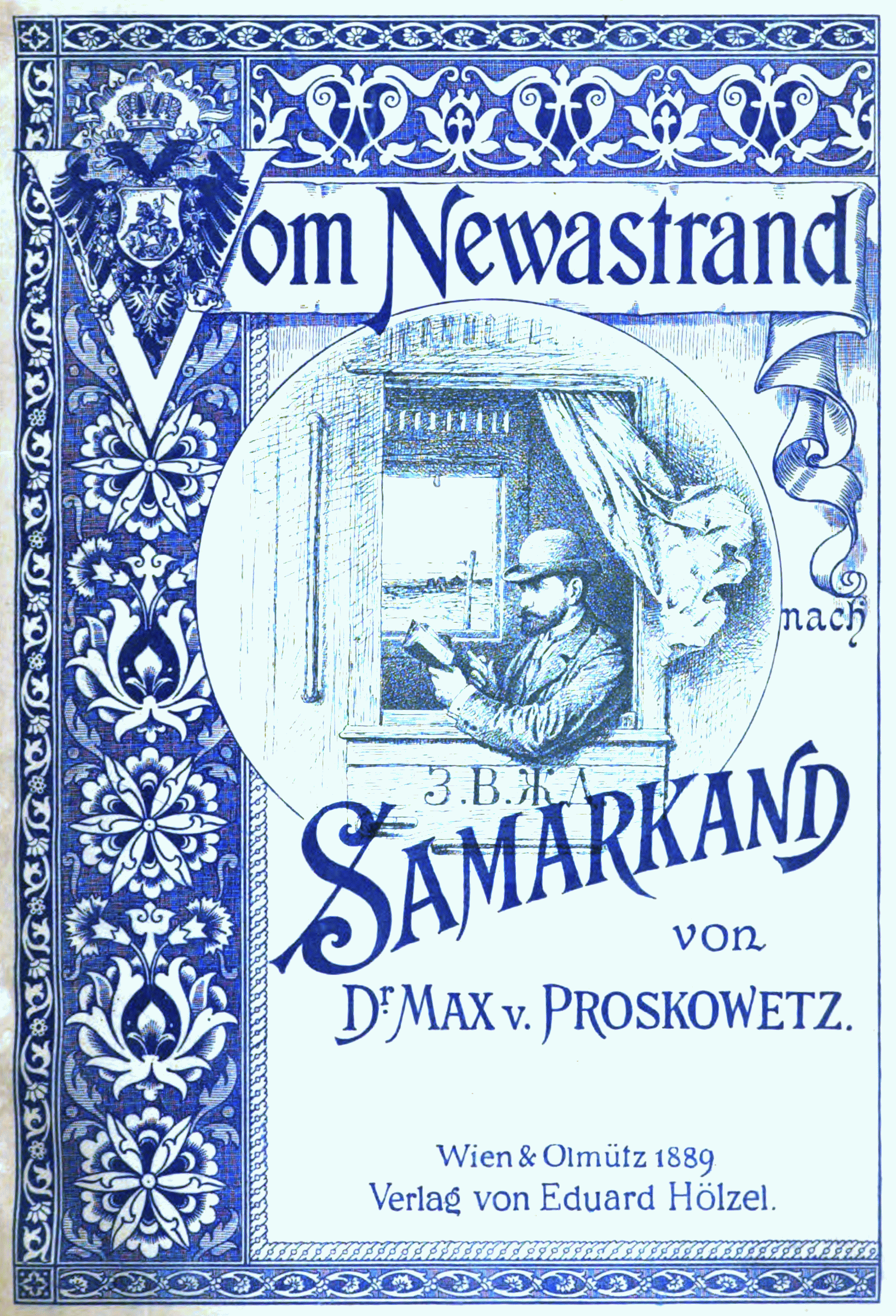 Max von Proskowetz (1851-1898), Austrian agronomist and diplomat